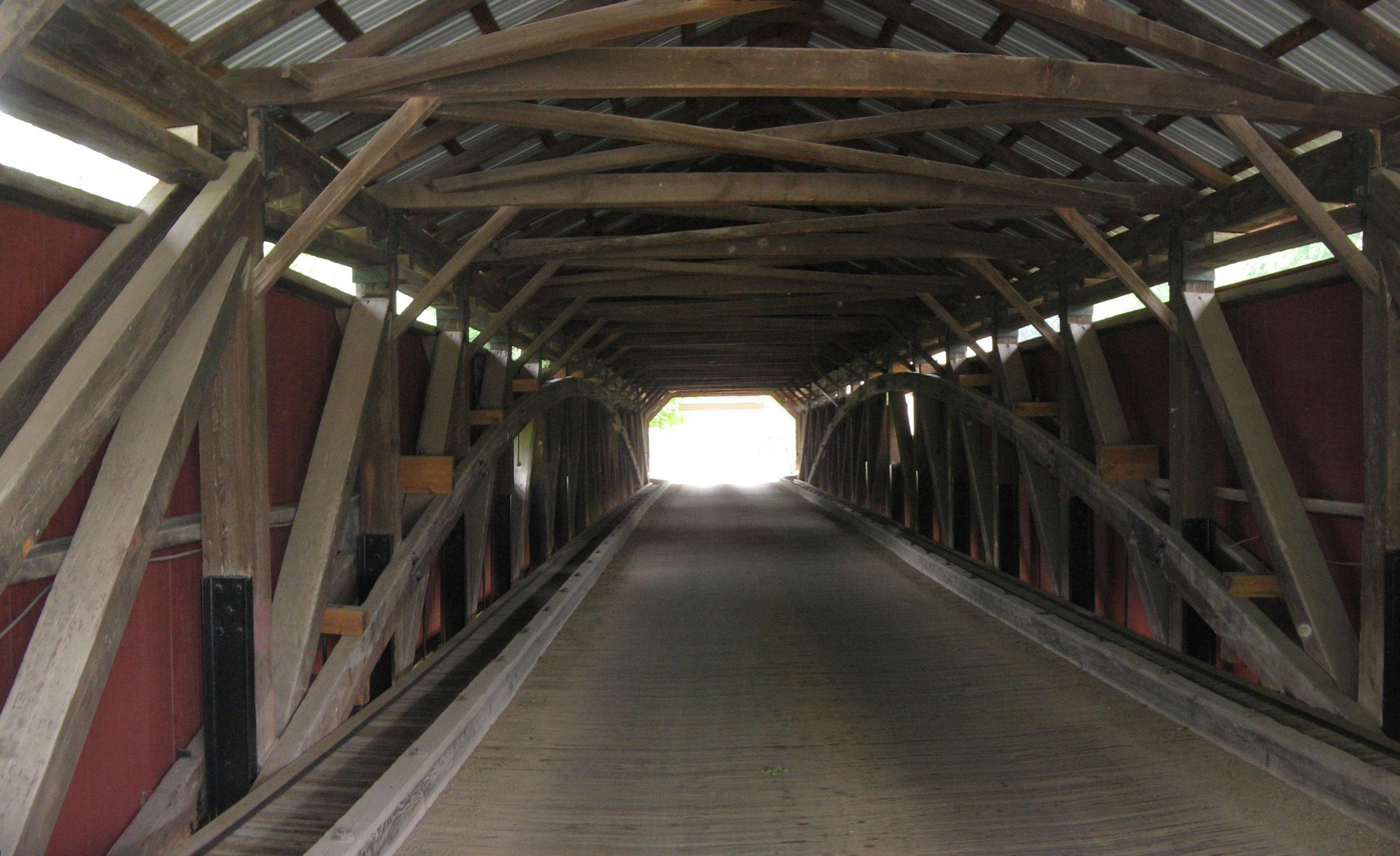 Interior of Forksville Covered Bridge in Forksville, Sullivan County, Pennsylvania in the United States. Looking west from east end, note Burr arch, wheel guards, and black vertical steel beams on King posts. Originally 3 vertical photos, This panoramic image was created with Autostitch. Stitched images may differ from reality.